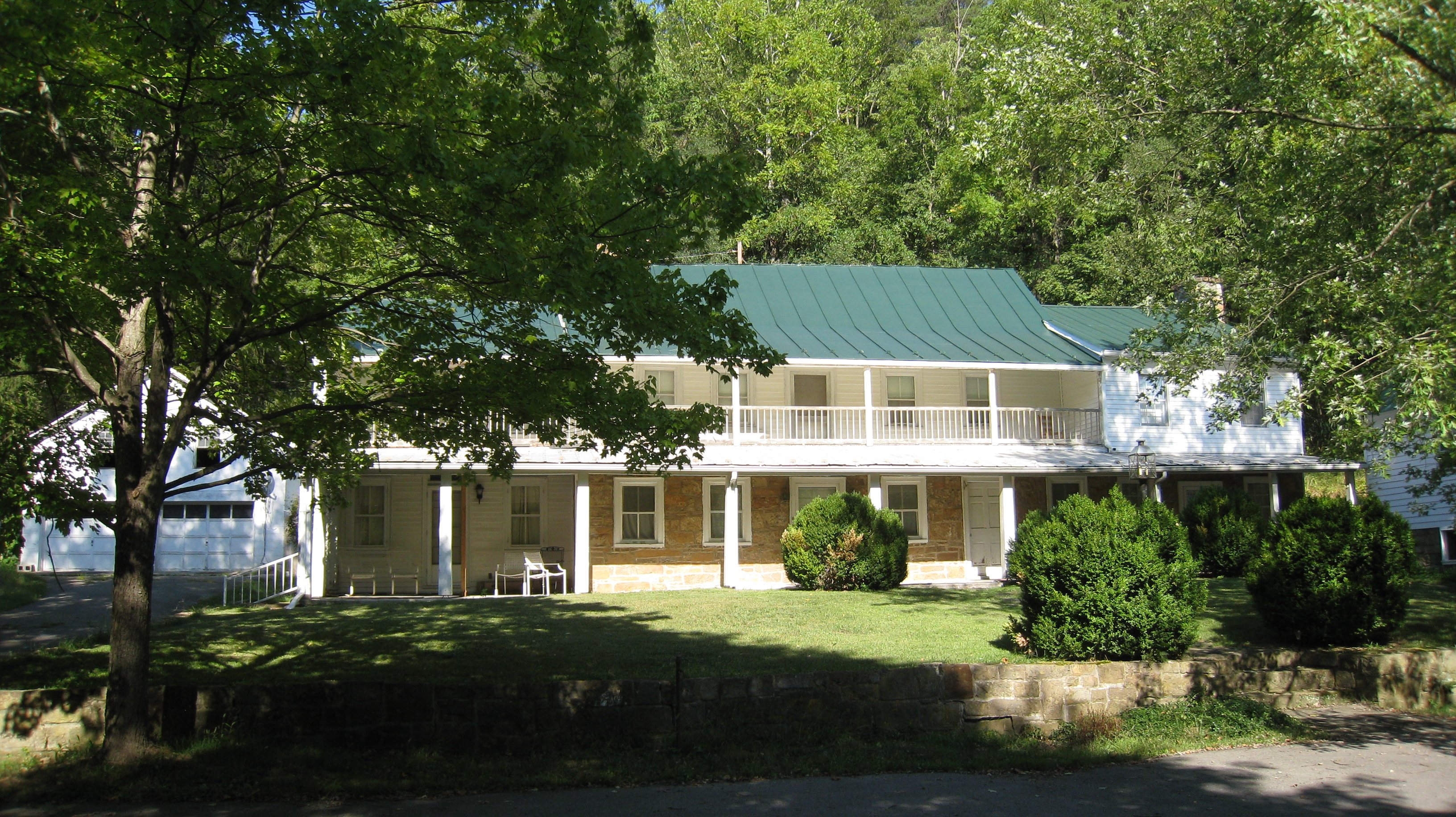 The Burg (circa 1769) is mid-18th century residence along the Northwestern Pike (U.S. Route 50) in Mechanicsburg, West Virginia, United States. Photographed on 28 August 2010.